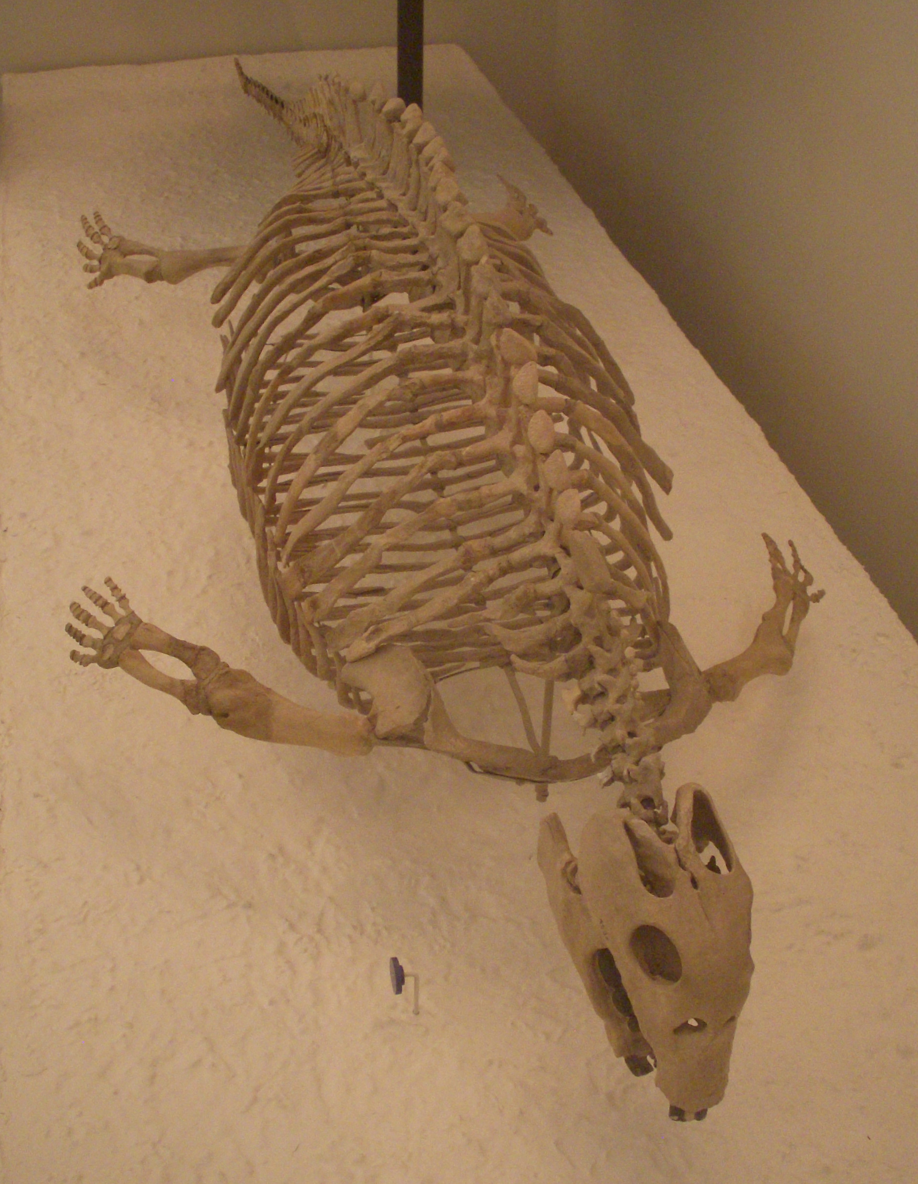 Cast of a skeleton of Placodus gigas (specimen AMNH 4985) in the American Museum of Natural History.